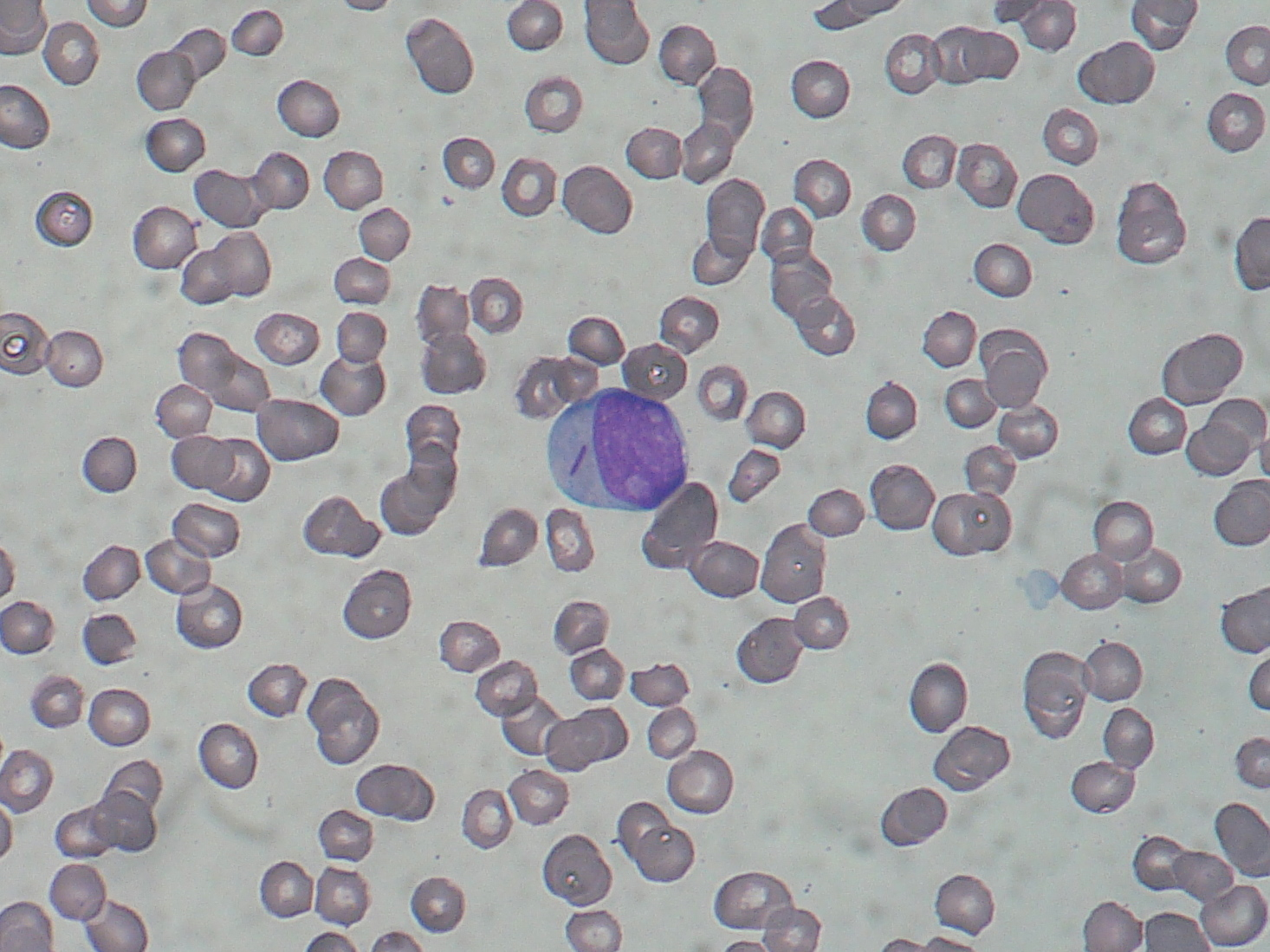 Myeloblast with Auer rod.